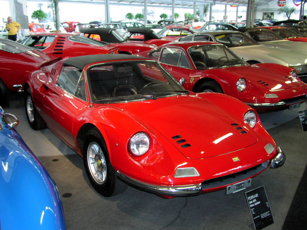 Ferrari 246 GTS Dino Spider at at Dauphin Speed Event (Collection) near Hersbruck (Germany)